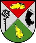 Coat of arms of Landkern